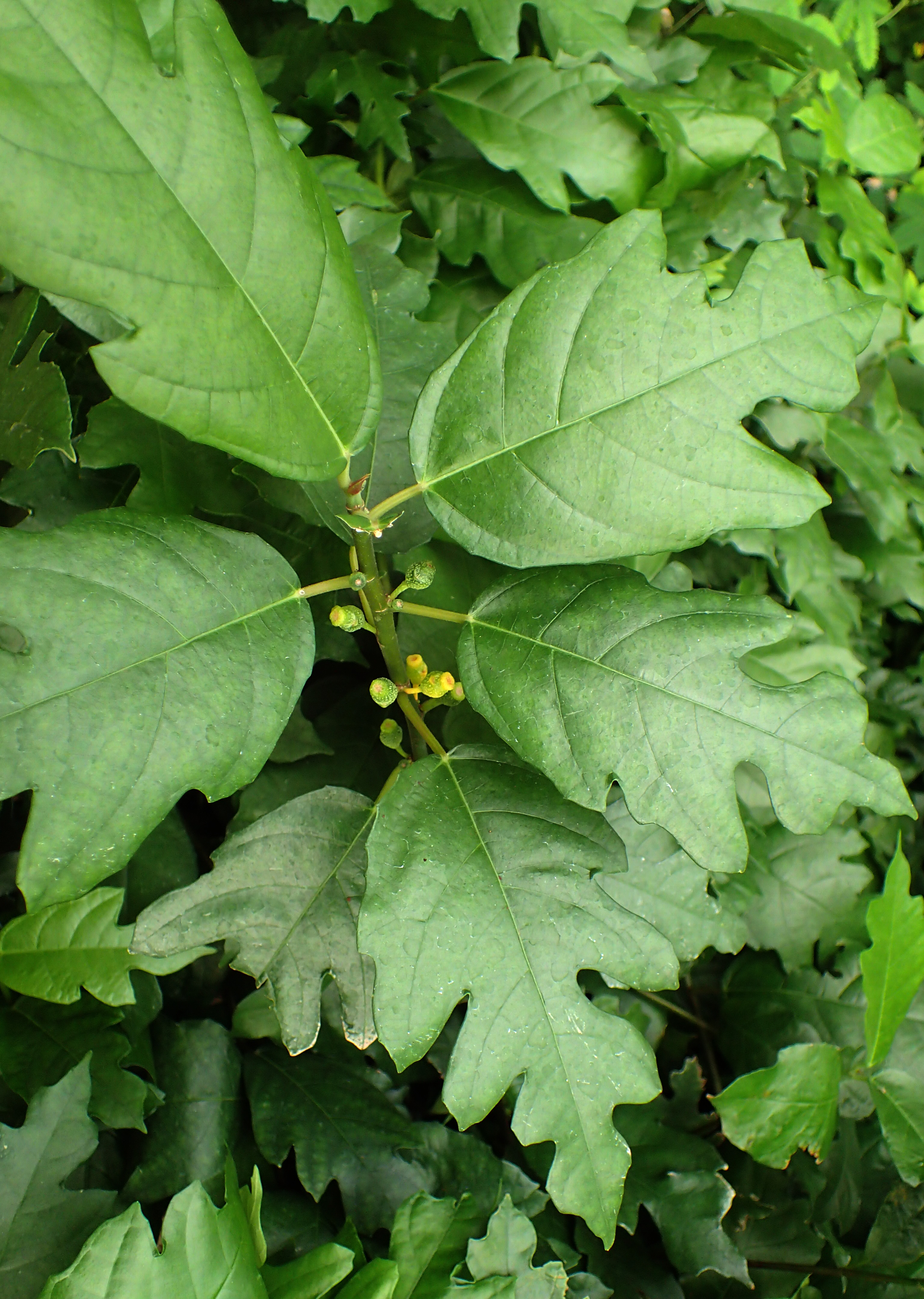 Ficus montana in Lincoln Park Conservatory